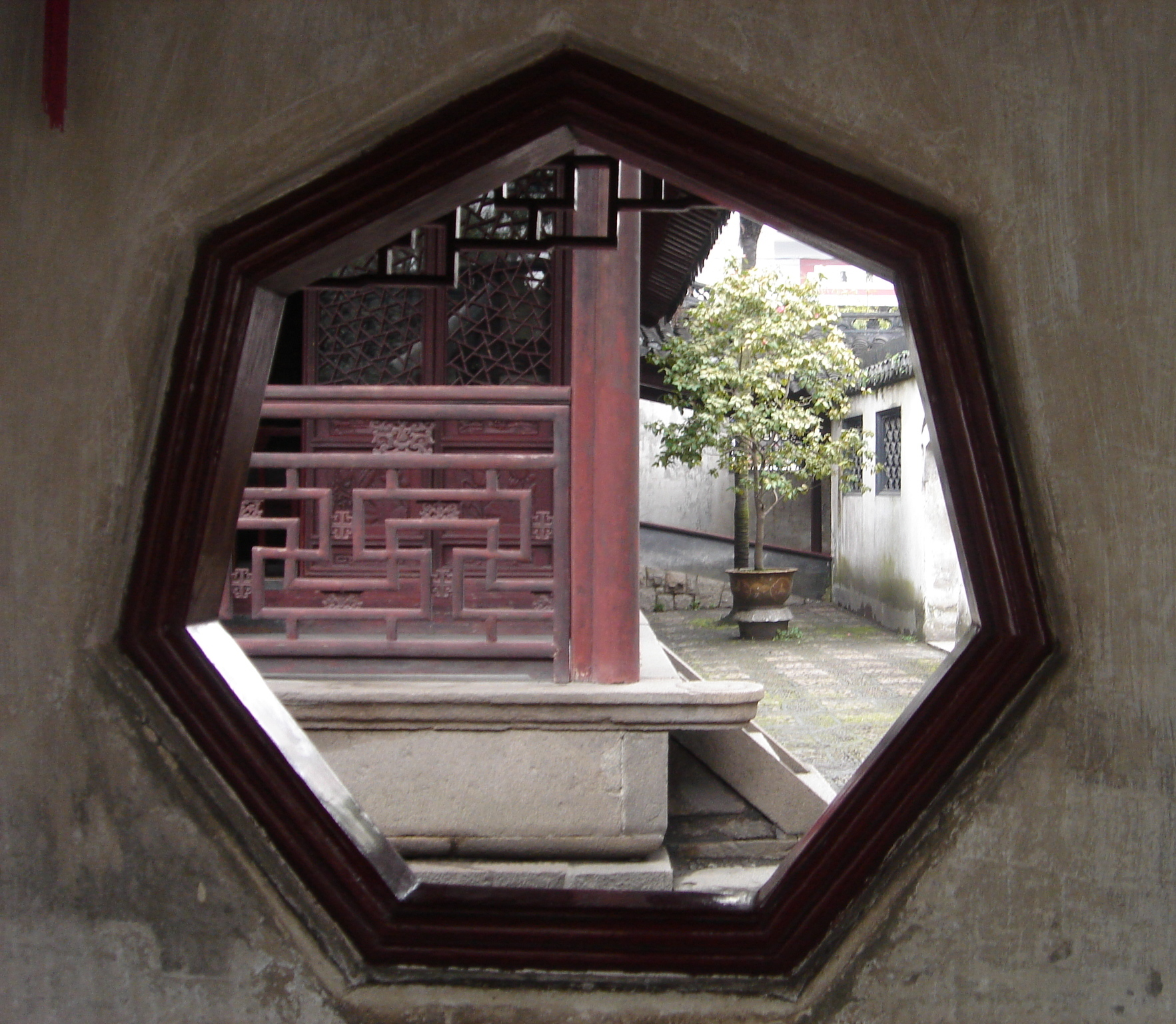 Heptagonal window in the Yuyuan gardens of Shanghai (China).